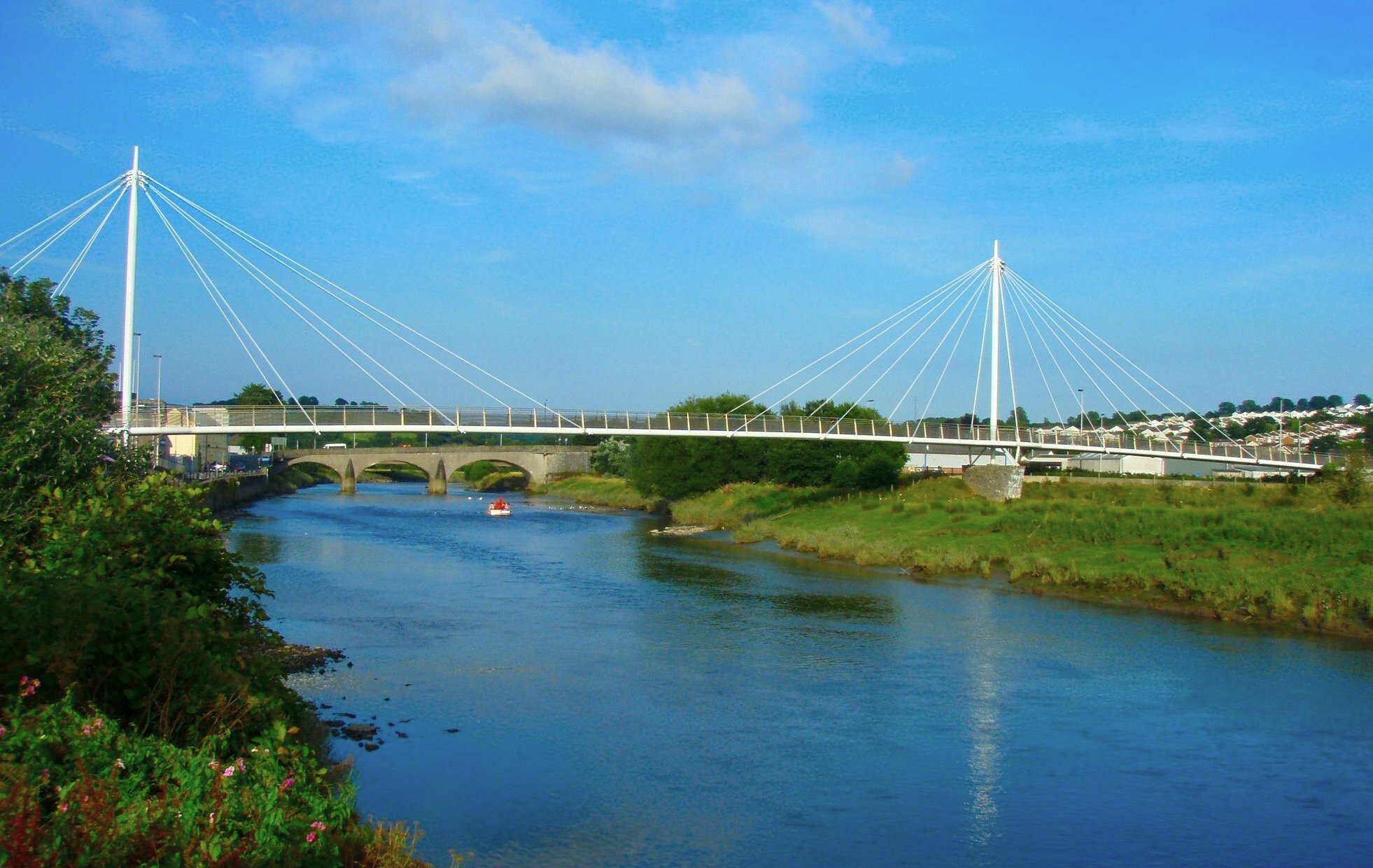 Pont King Morgan from Quay